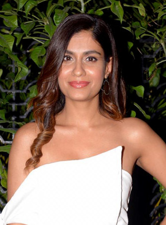 Shreya Dhanwanthary at Soho House